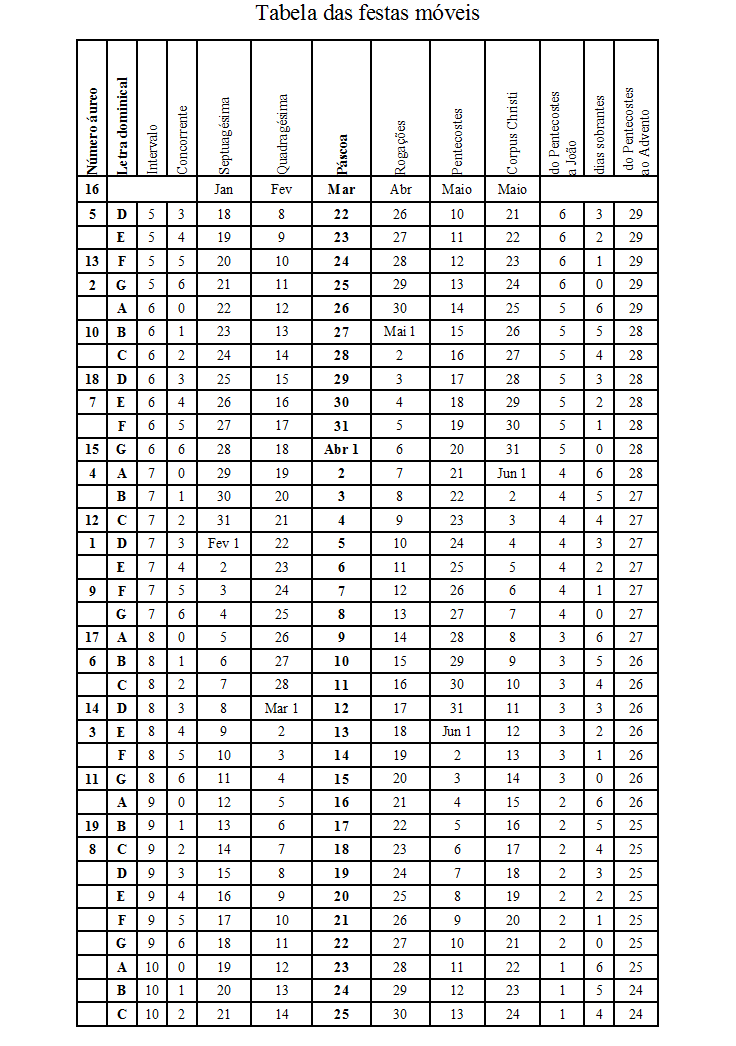 Table of movable feasts, Abraham Zacuto. Almanach perpetuum. Lisbon: IN-CM, 1986, p. 411-412. (Original edition Leiria in 1496).